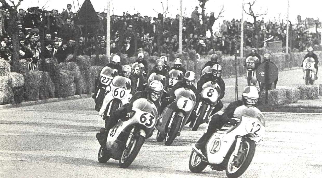 Mike Hailwood (Honda, number 63) is ahead of Giacomo Agostini (MV Agusta, number 1) at the 1969 500 cc race on the Riccione street-circuit, one race in a traditional series of Italian road courses held between 1945 and 1971 in the early part of the calendar year, prior to the start of Grands Prix racing. Known as Temporada Romagnola, it translates to Adriatic Season. Spectators can be seen behind straw bales positioned along the tree-lined roadside.